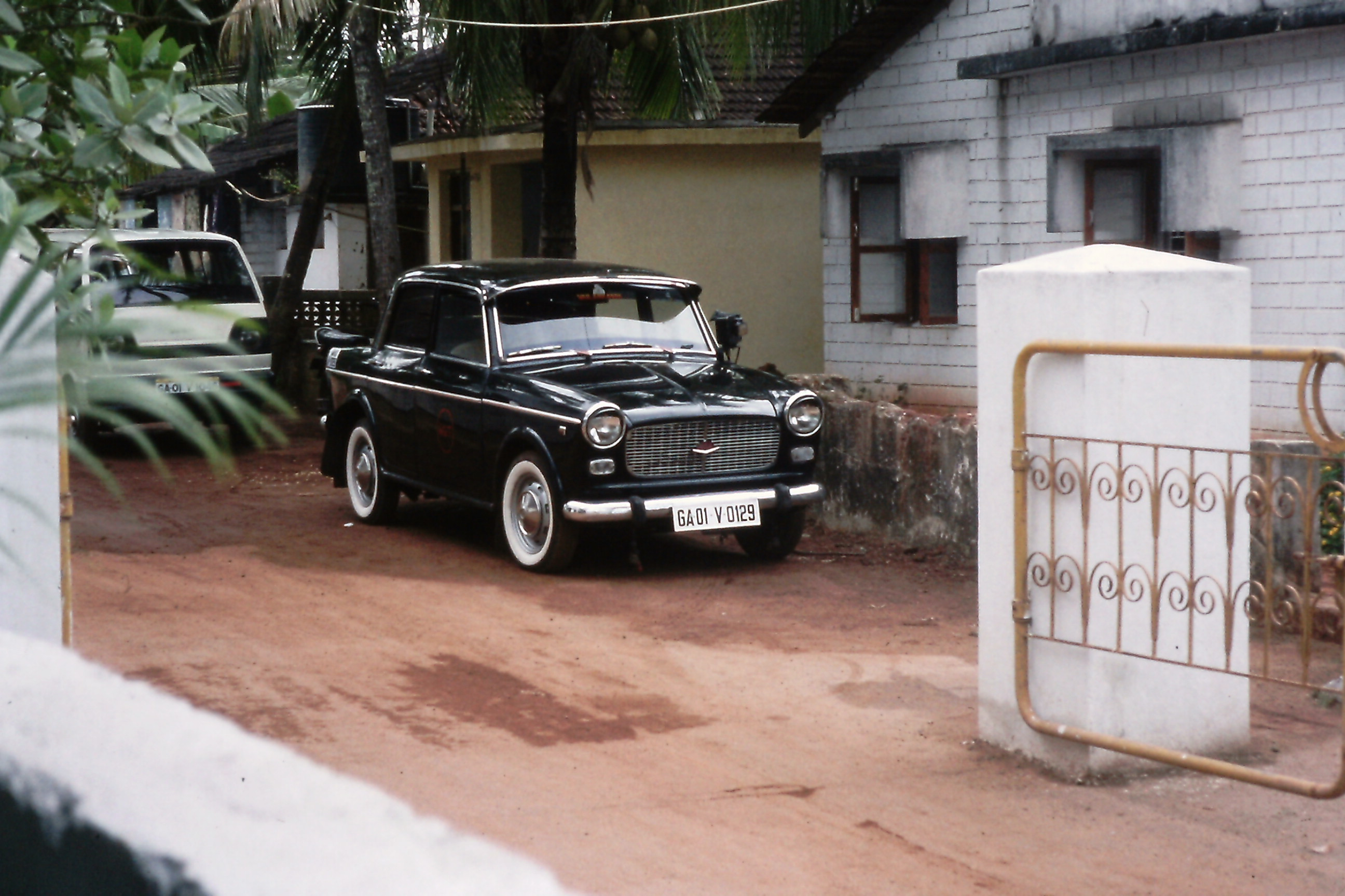 Premier Padmini (Fiat 1100) Taxi in Goa, India in October 1994